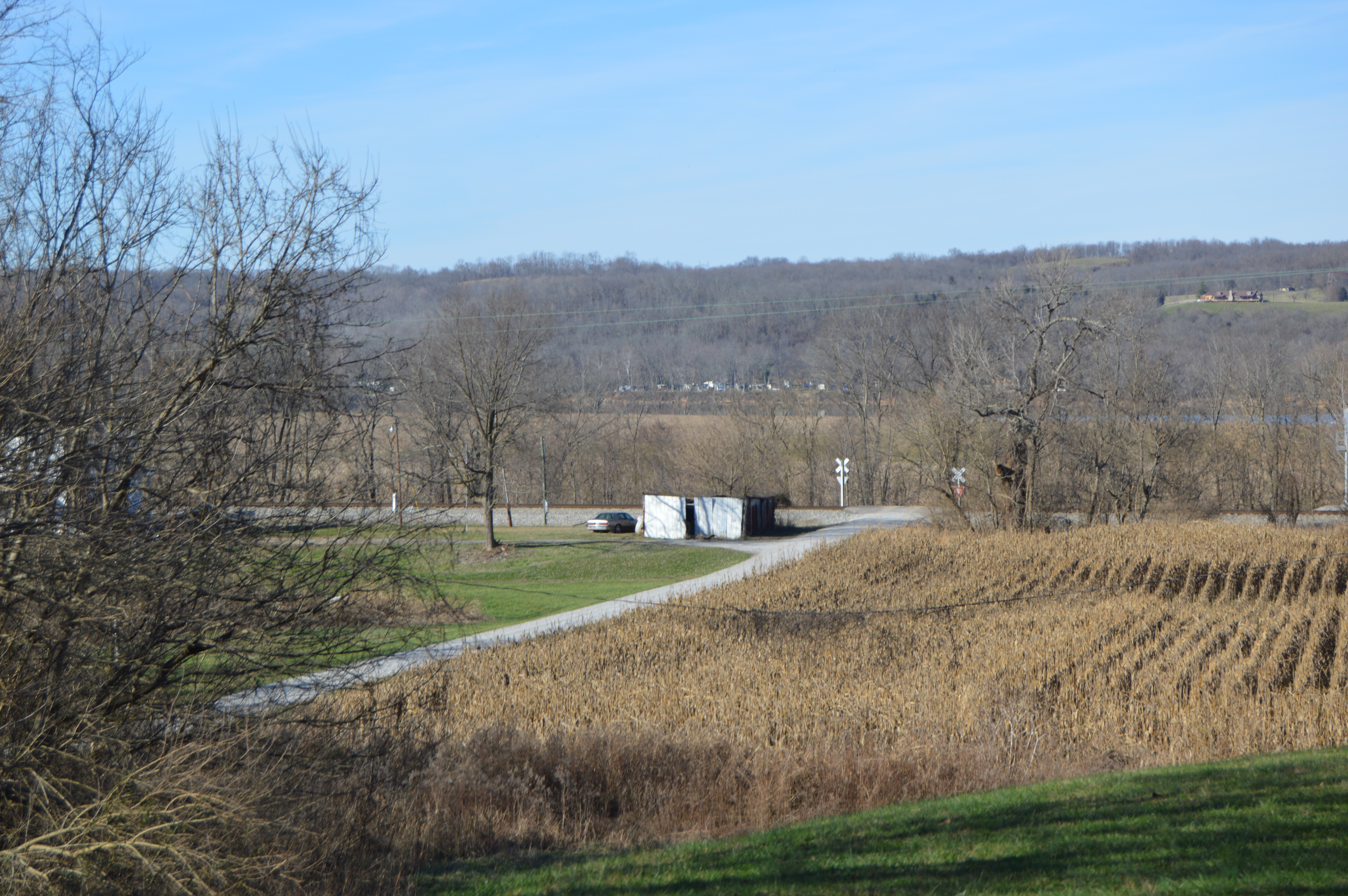 Fields at the George W. Barkley Farm, located on the northern side of Kentucky Route 8 east of Augusta in unincorporated Bracken County, Kentucky, United States. Here, George Barkley hybridized and grew the first White Burley tobacco. The farmstead is listed on the National Register of Historic Places.